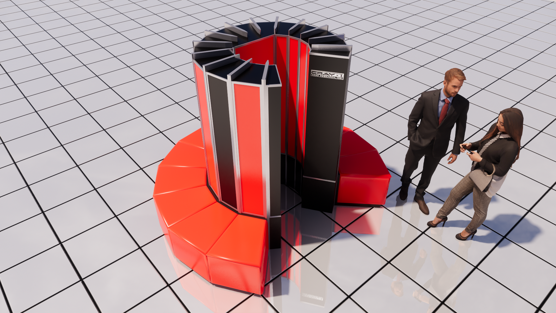 3D rendering of two Cray - 1 supercomputer, with a figure as scale.